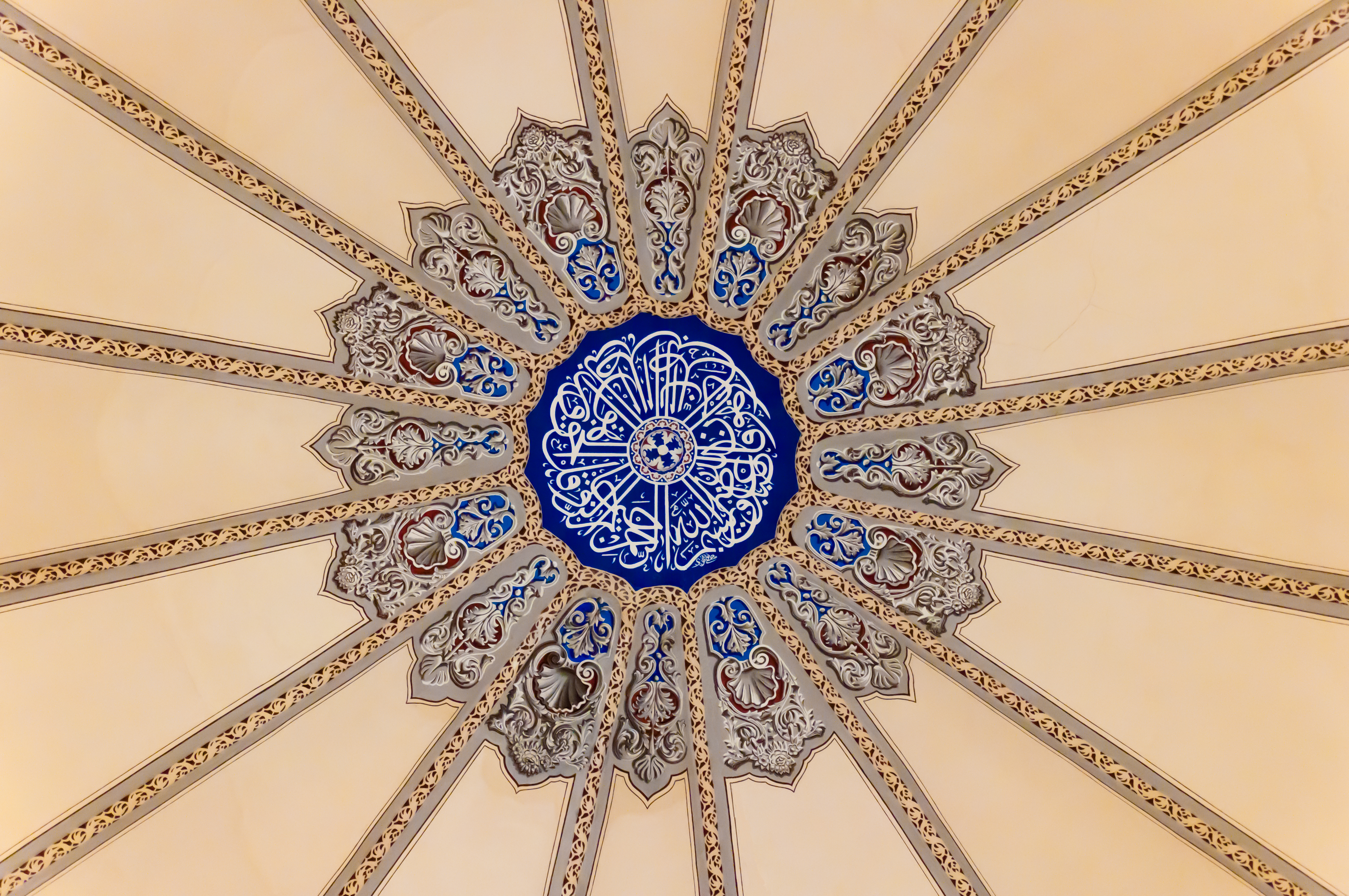 Interior view of the dome of Little Hagia Sophia, Istanbul